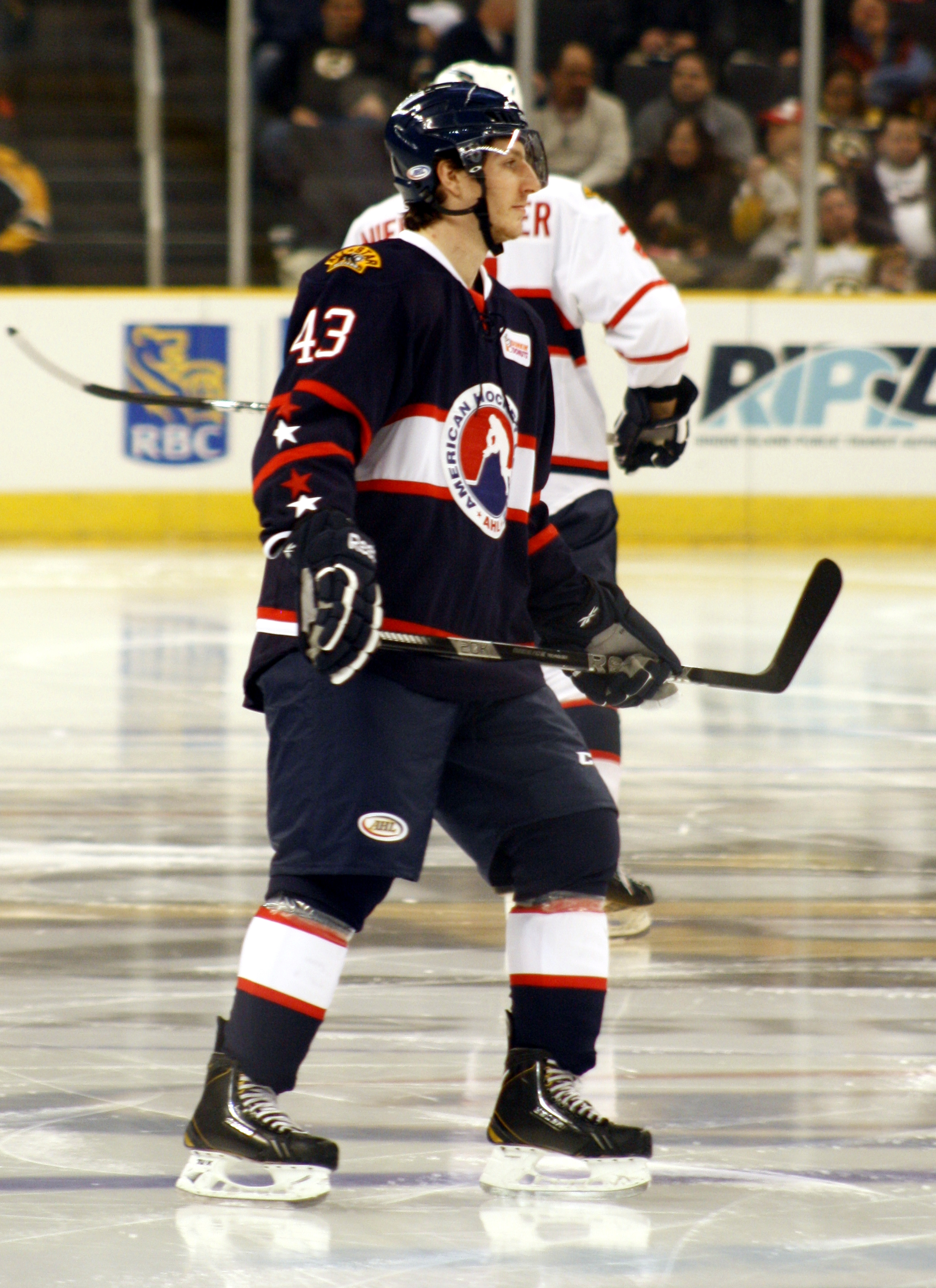 Michael Sgarbossa during the 2013 AHL All-Star Classic.